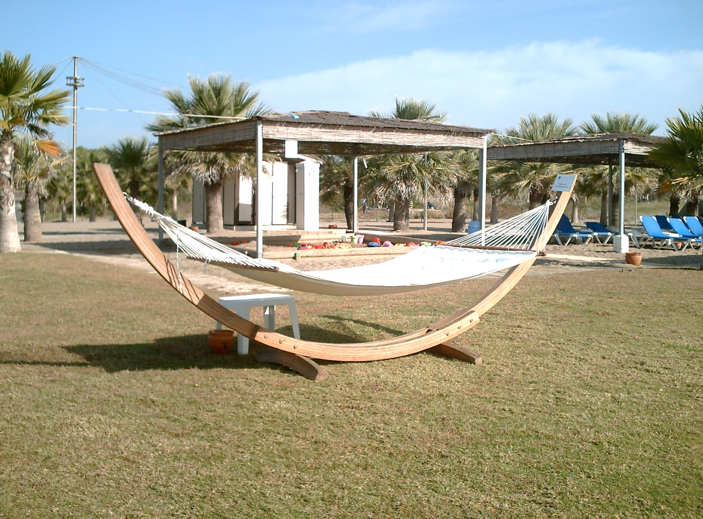 Beach of a Hotel club facility in Belek near Antalya (Turkey)